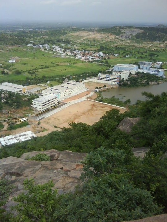 Aerial view of St. Mary's campus from Mount Opera.